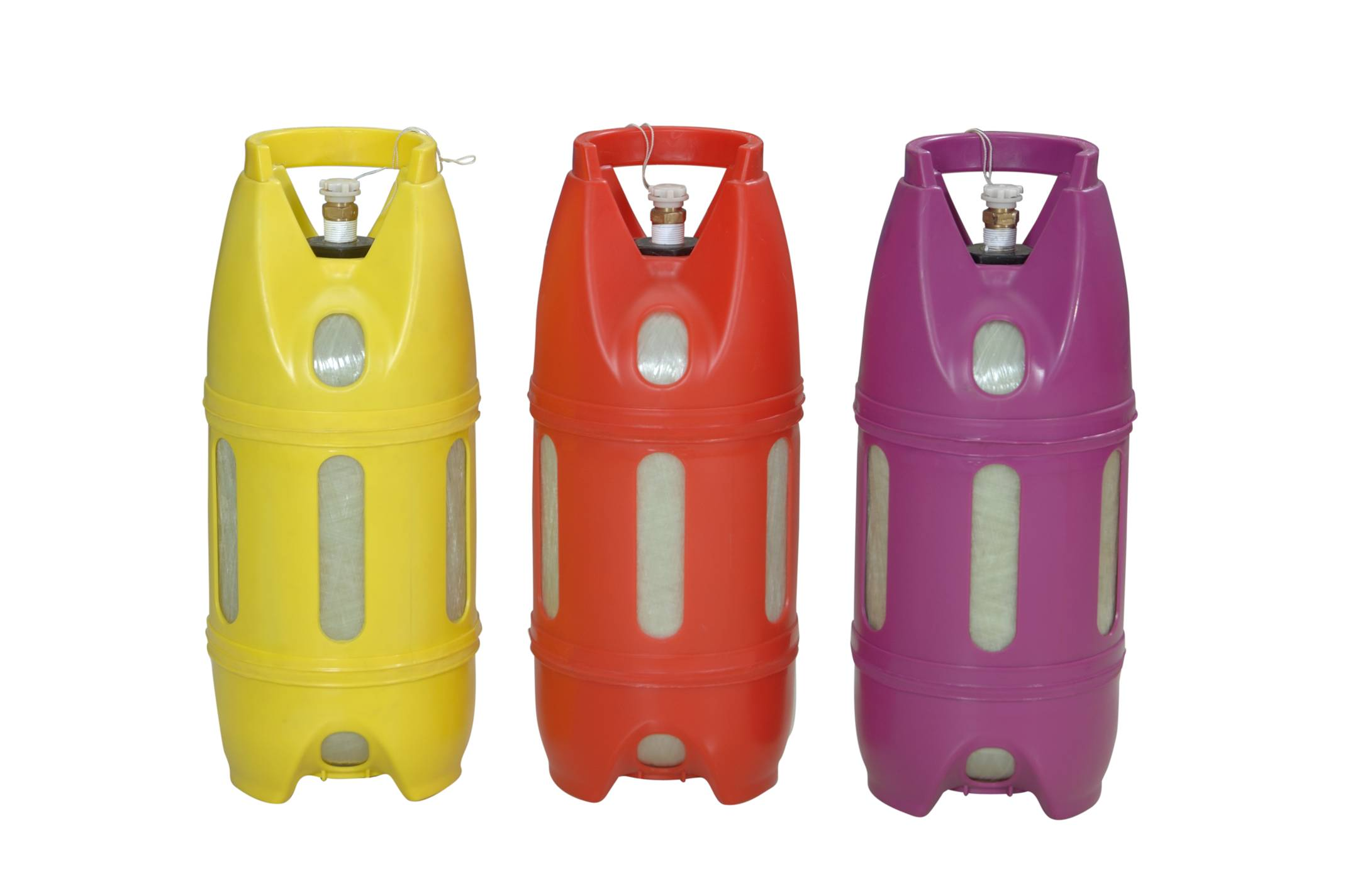 Composite LPG cylinders in different colours